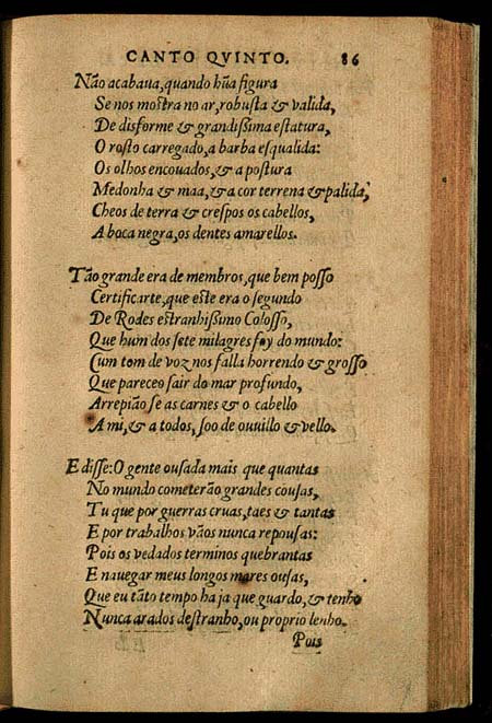 Page of Os Lusíadas, by Luís de Camões